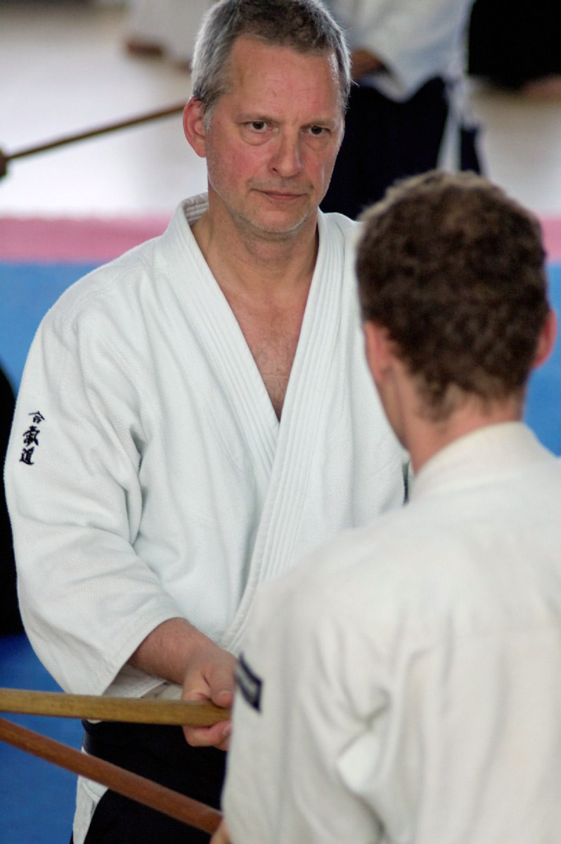 Stefan Stenudd - aikido teacher from Sweden (2009)